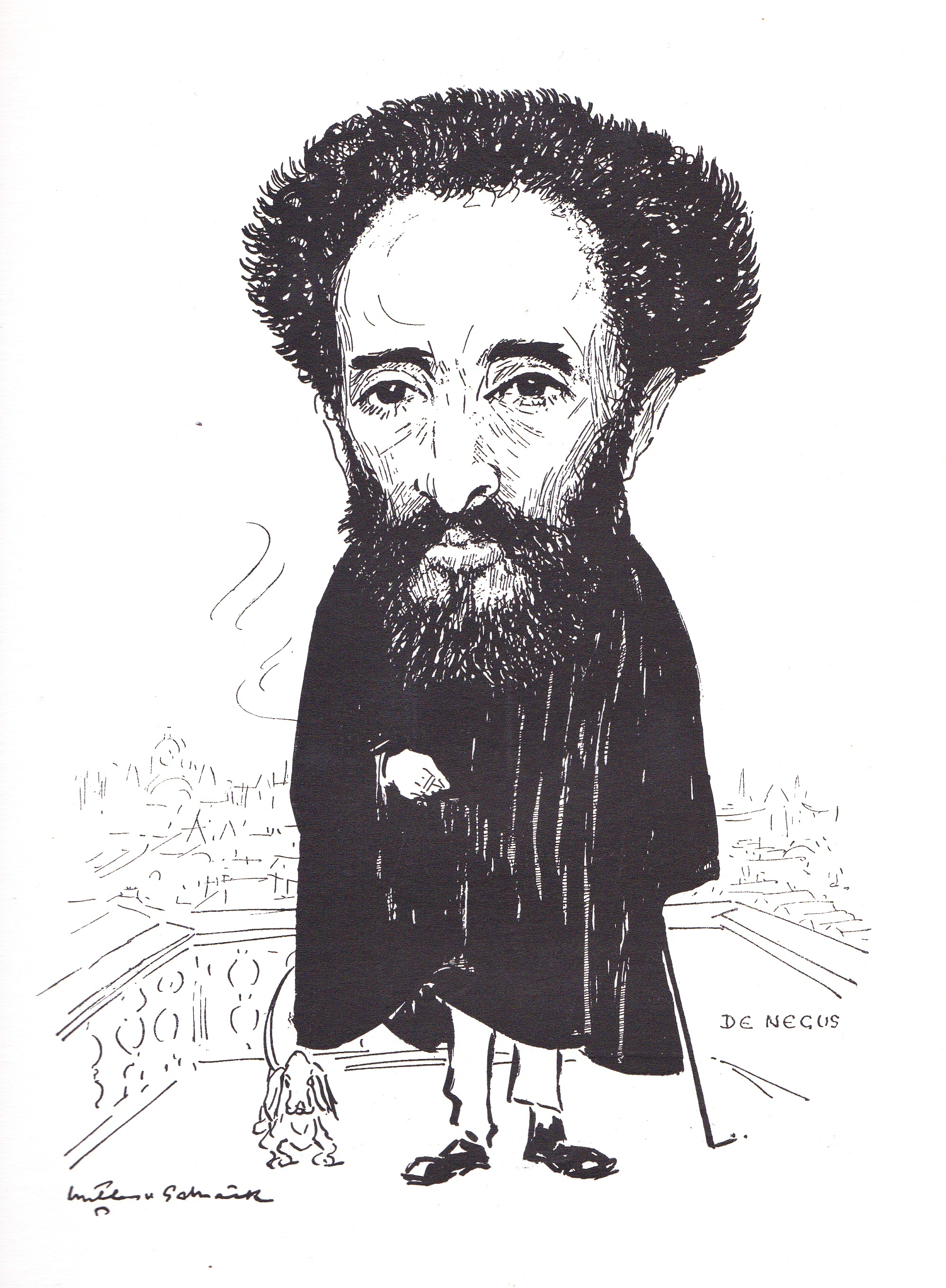 Haile Selassie ("Negus"). Sketch drawn by Willem van Schaik (1876-1938)